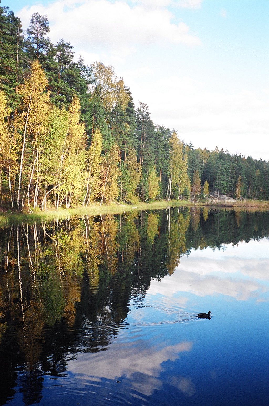 Ruska, Autumn colors at Mustalampi lake in Nuuksio National Park, Espoo, Finland, October 1st 2005